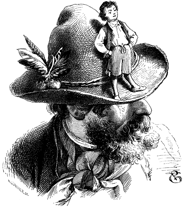 illustration of the Brothers Grimm fairy tale "Thumbling" showing a hatted head of a man with another man, as small as the hat, standing on the brim